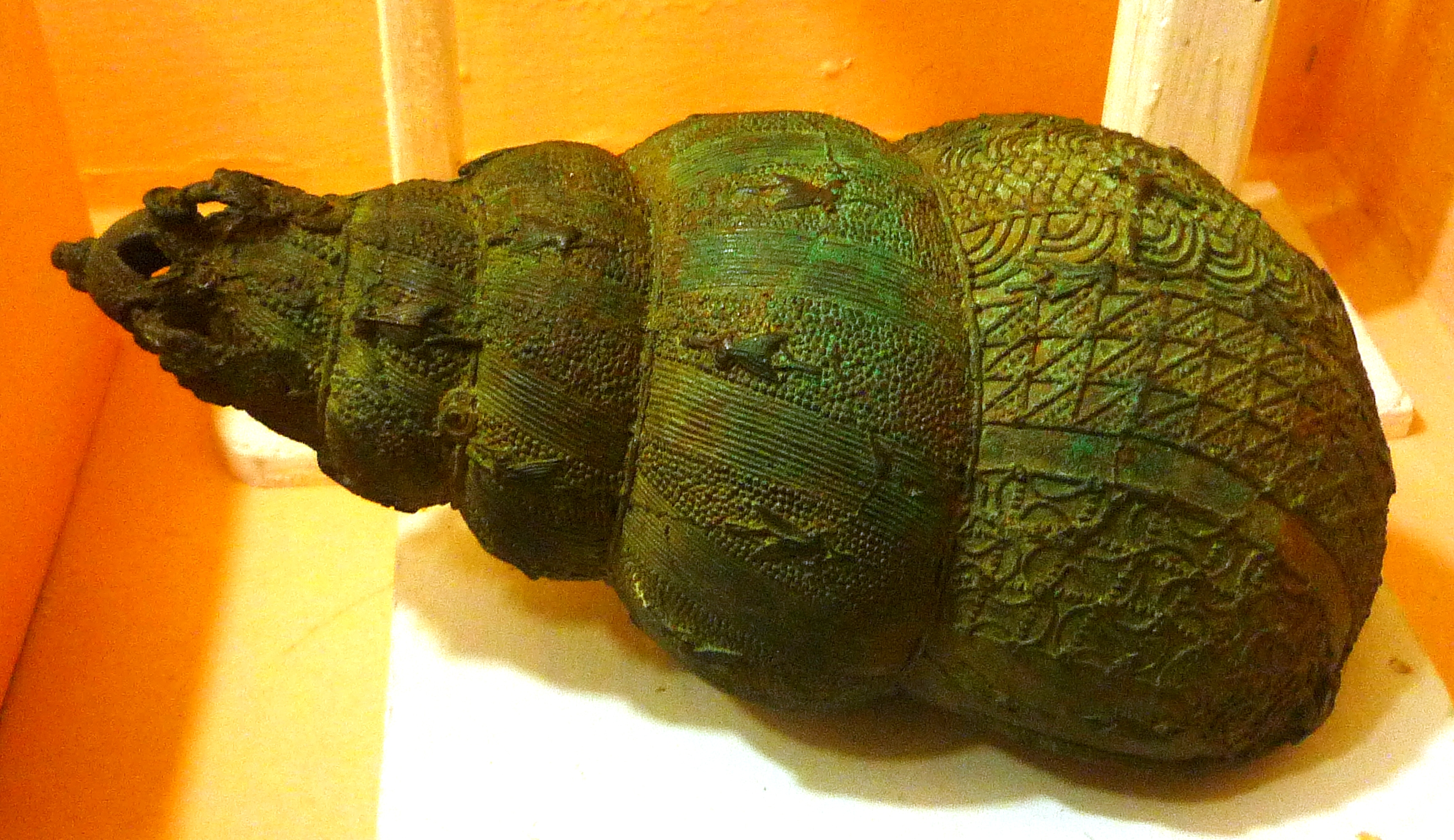 Photograph of a 9th century bronze vessel in the shape of a snail shell found at Igbo-Ukwu, Anambra State, Nigeria. Presently located in the National Museum, Onikan, Lagos, Nigeria